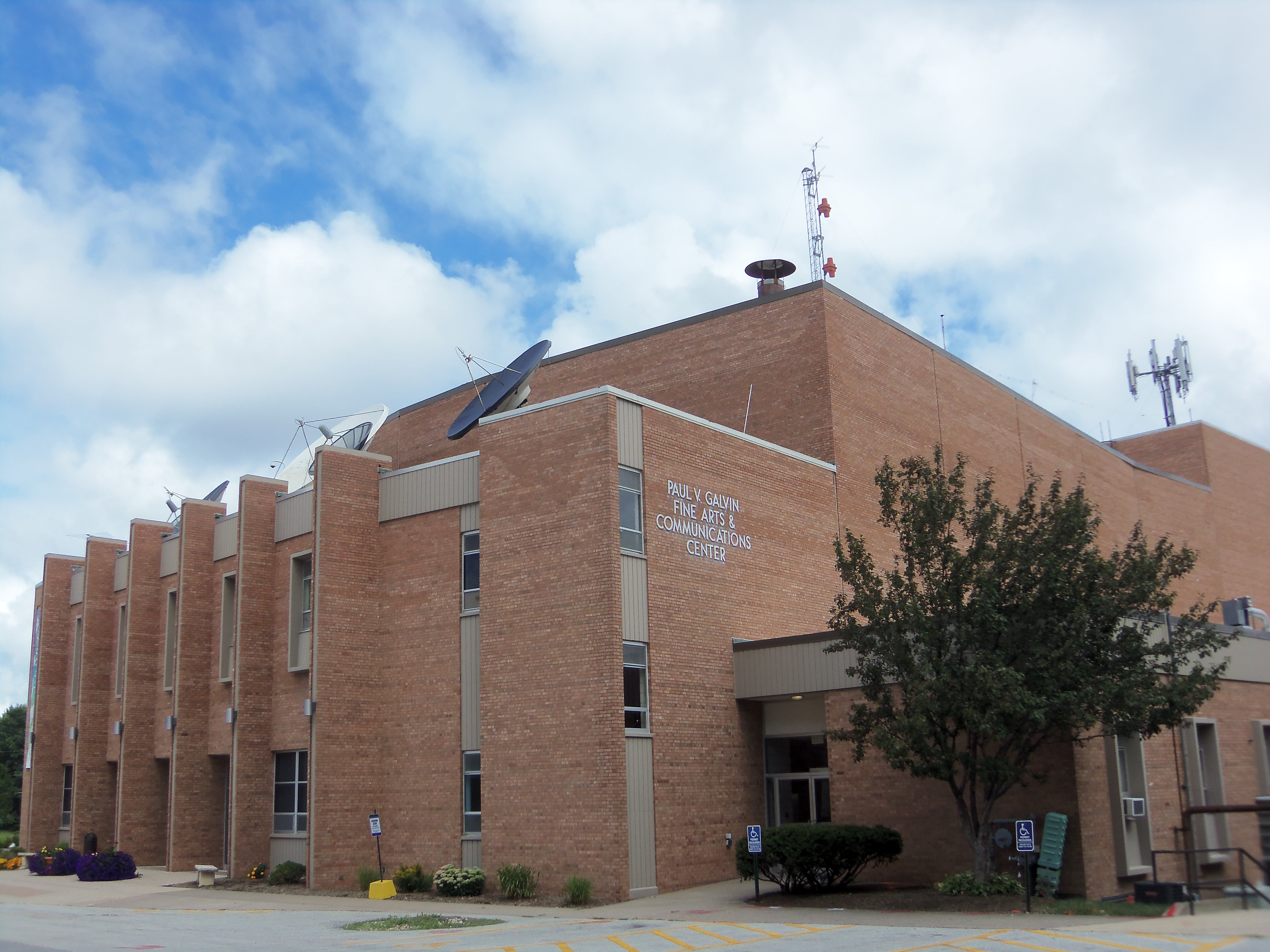 Galvin Fine Arts Center on the campus of St. Ambrose University in Davenport, Iowa.